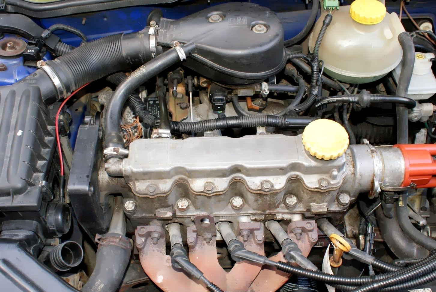 Engine with manual adjustment via key (visible in the upper left with the number 95) of the octane number of gasoline